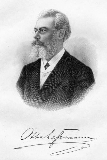 The portrait of musical criticist Otto Leßmann (1844—1918)